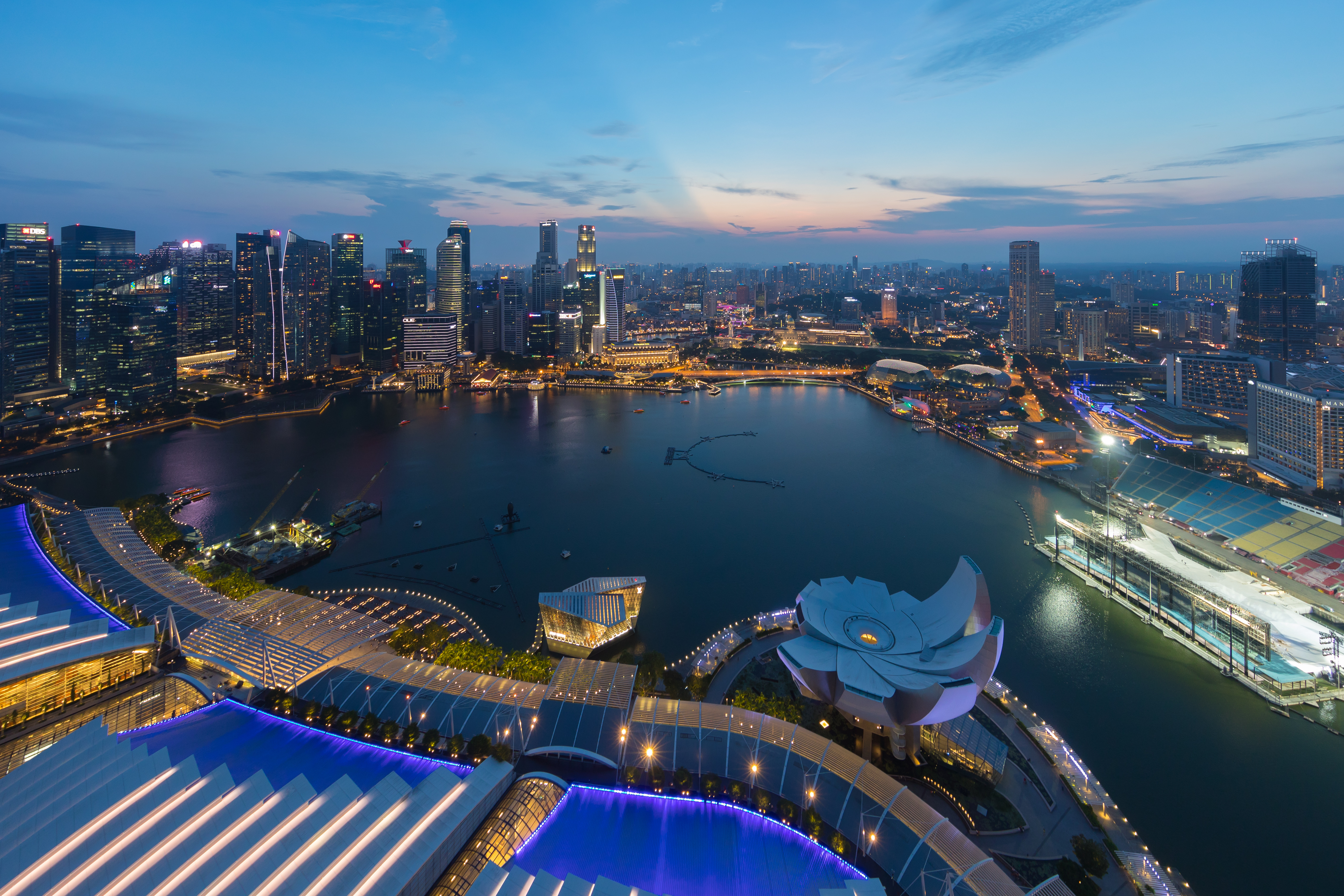 Skylines of the Central Business District, Singapore, at dusk, from the sky observation deck of the Marina Bay Sands skycrapper.